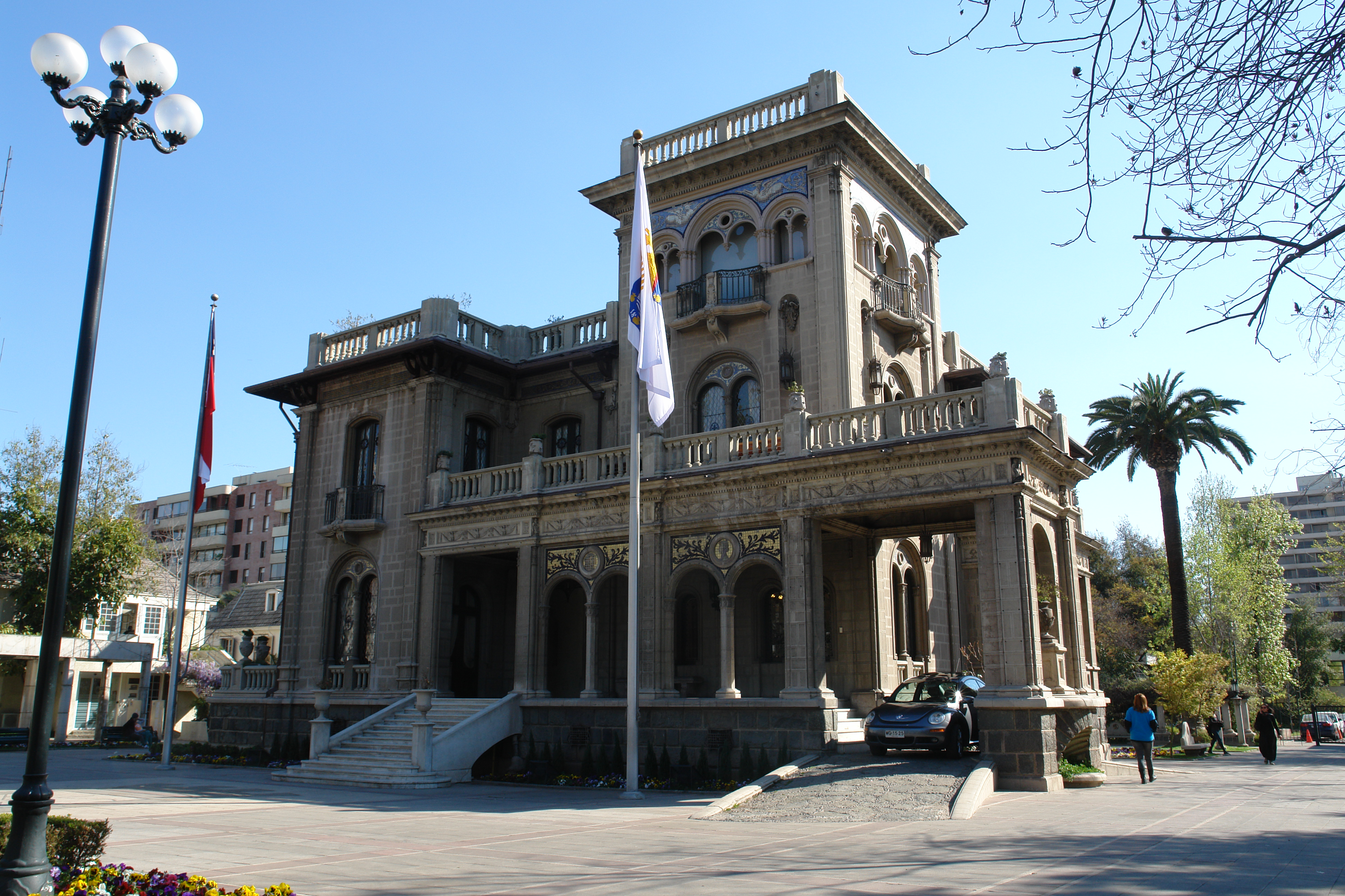 This is a photo of a national monument in Chile: 903